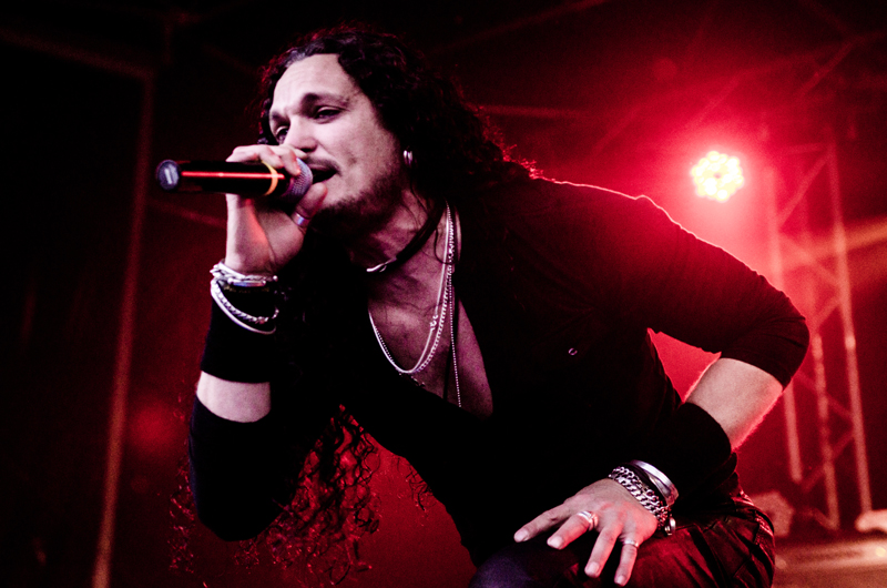 This photo was taken by Petra Leusmann Photography in Belgium 2014